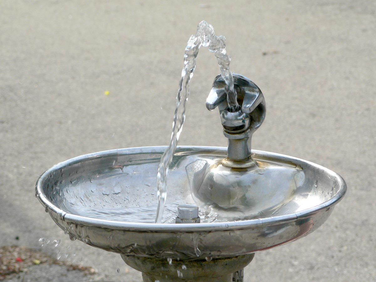 A typical bubbler found at Humboldt Park in Milwaukee, Wisconsin. It is a regional name for the drinking fountain, which was invented by the Kohler Company and trademarked.